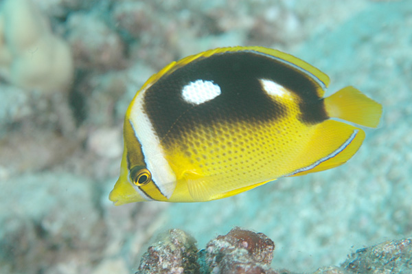 Four-Spot Butterflyfish (Chaetodon quadrimaculatus), Kona, Hawaii. Image taken by Clark Anderson/Aquaimages.